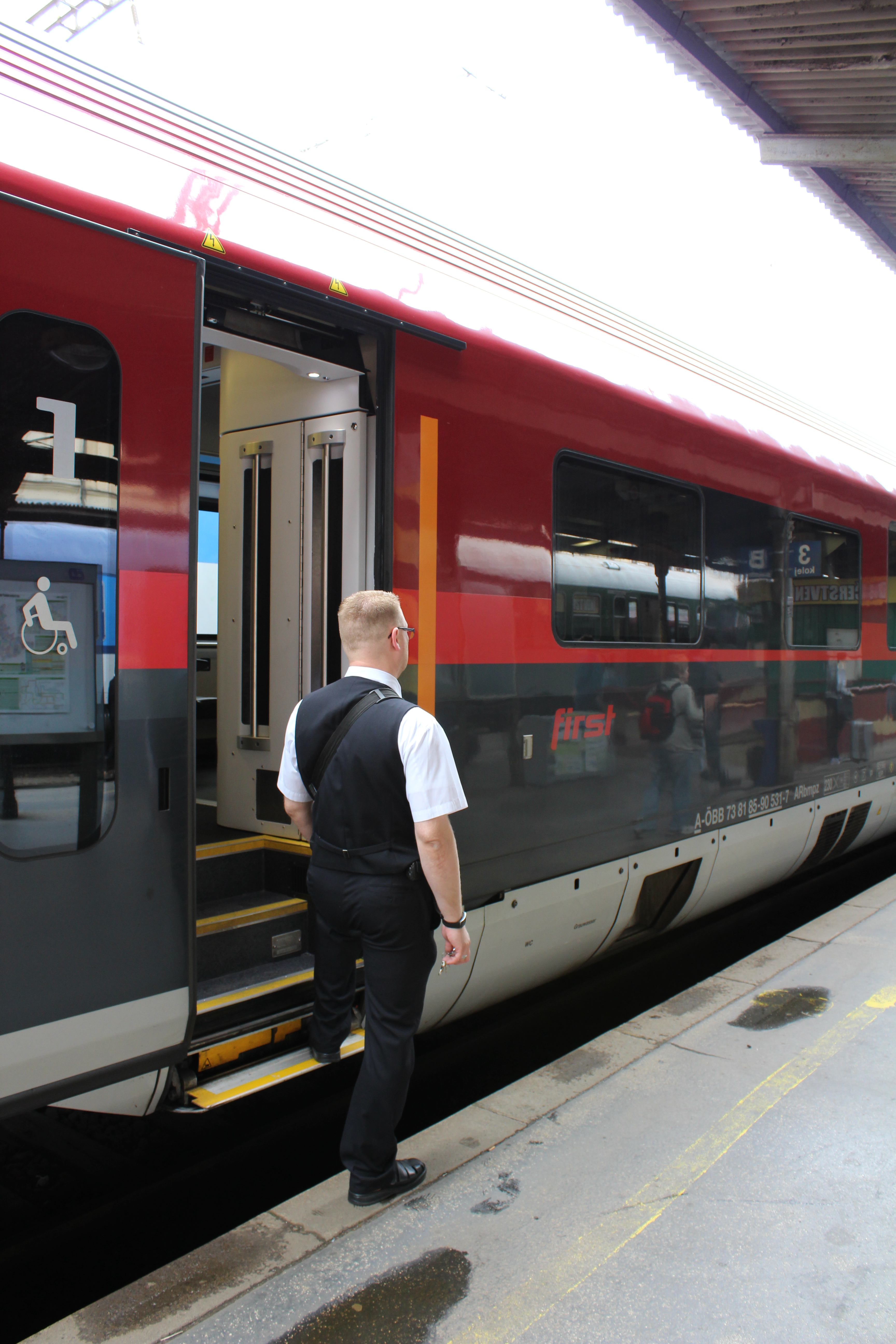 Houre tact by ÖBB Railjet in Brno hlavní nádraží